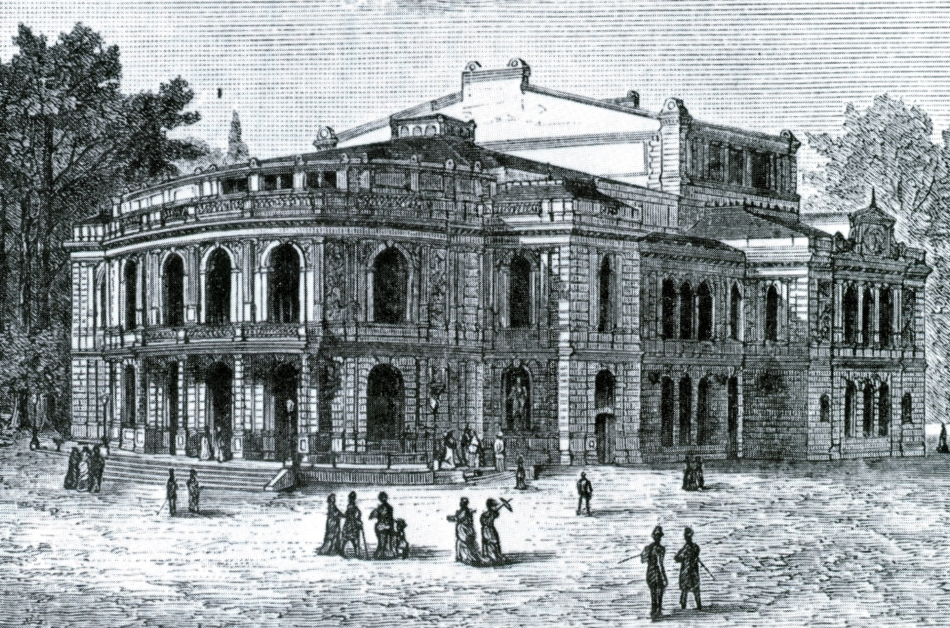 i